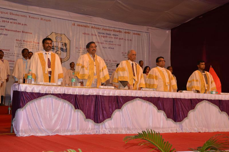 Seventeenth Convocation of Dr. Babasaheb Ambedkar Technological University, Lonere